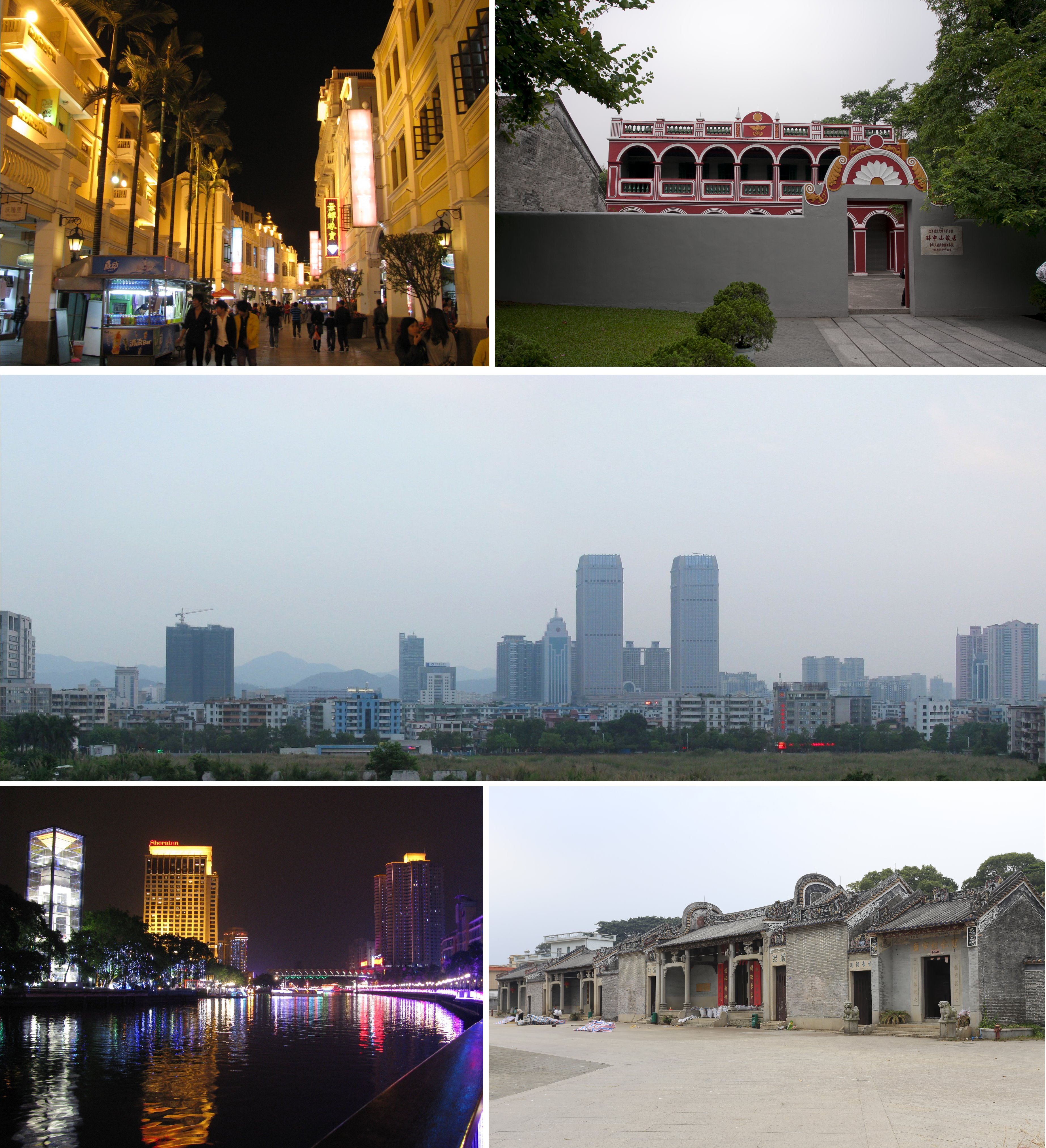 Montage of various Zhongshan images